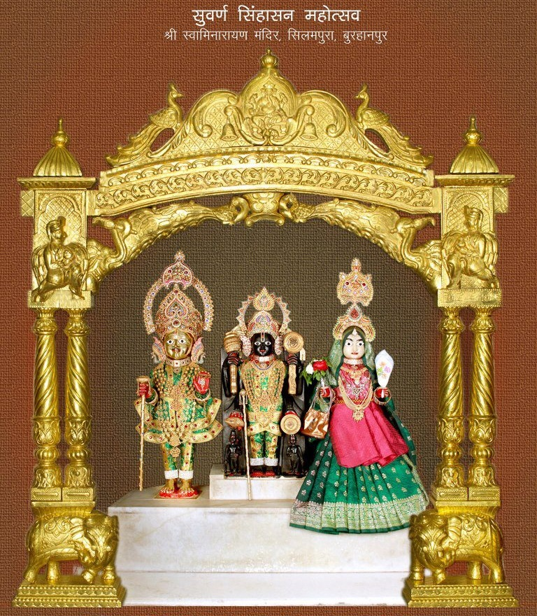 Suvarna Sinhasan Mahotsav, Shri Swaminarayan Mandir, Silampura, Burhanpur - 450331